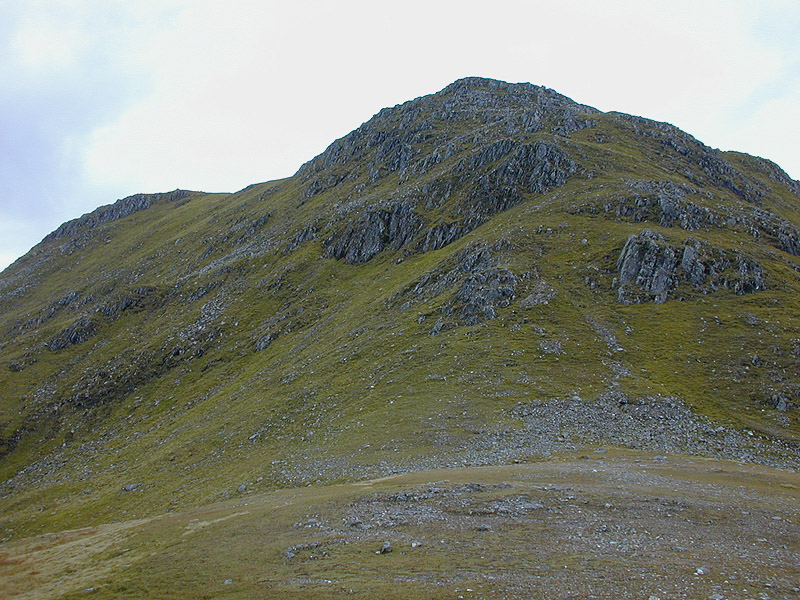 The summit of A' Ghlas-bheinn Taken from the col between Creag na Saobhie and A' Ghlas-bheinn.